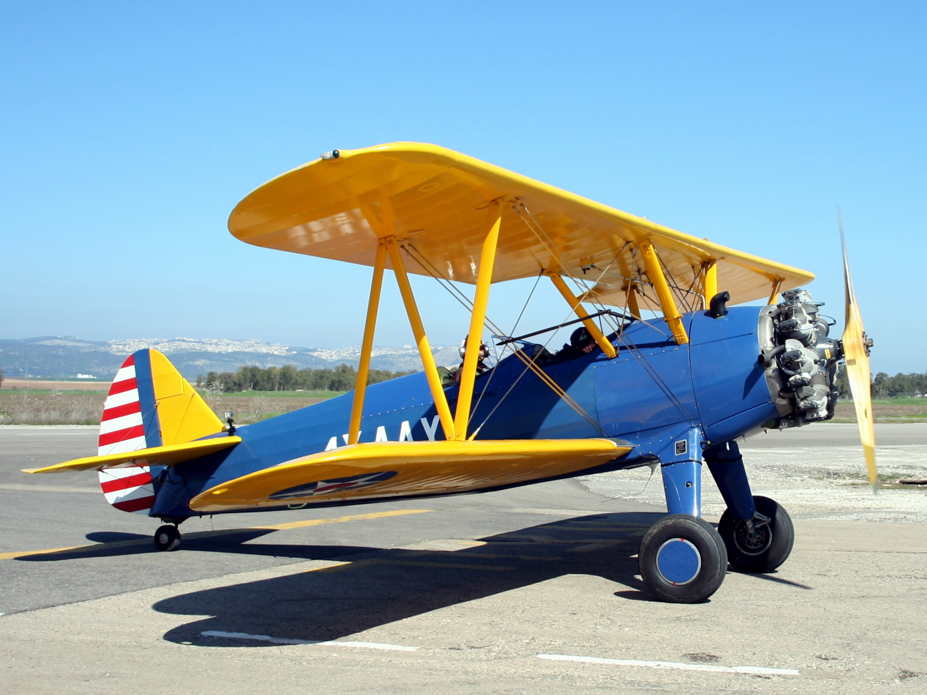 Boeing 75 Stearman 4X-AAY at Megido airstrip.